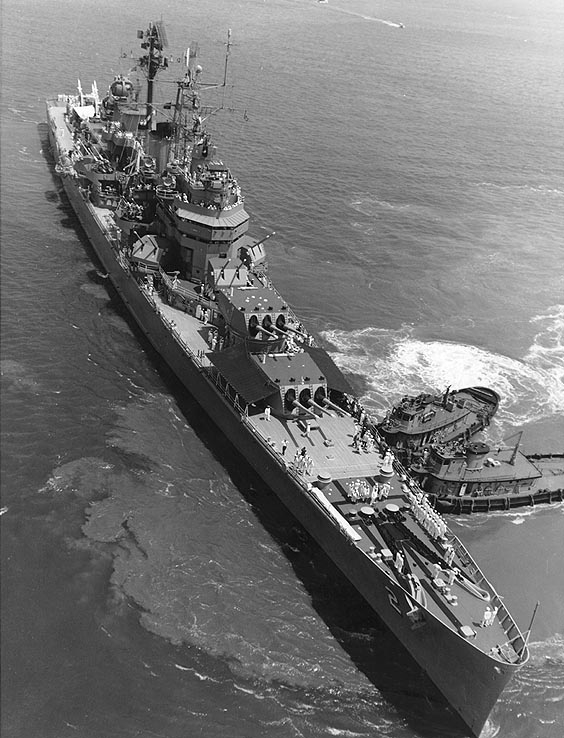 The U.S. Navy guided missile cruiser USS Canberra (CAG-2) moves into position for the International Naval Review, in Hampton Roads, Virginia (USA), 12 June 1957. The harbor tugs Segwarusa (YTB-365) and Ganadoga (YTB-390) are assisting her.